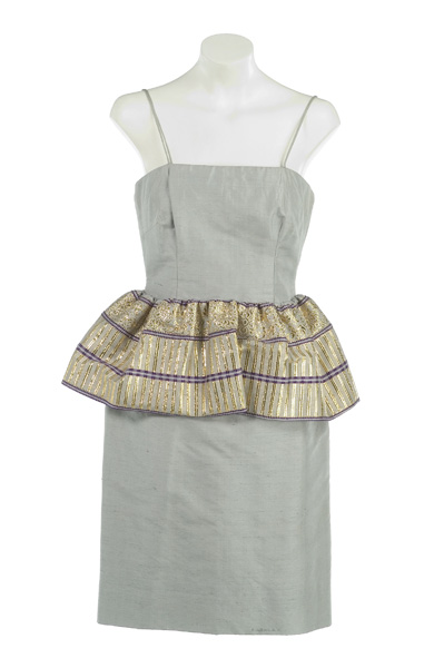 Gray silk brocade cocktail dress with a ruffled peplum at the waist.